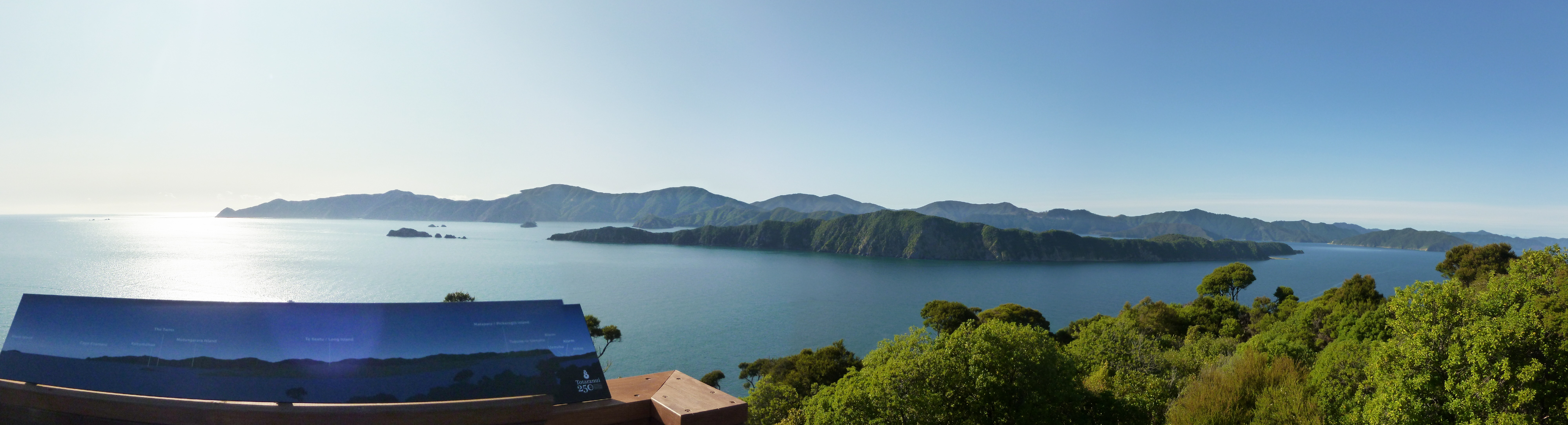 Long Island is a wildlife refuge and marine sanctuary in Queen Charlotte Sound